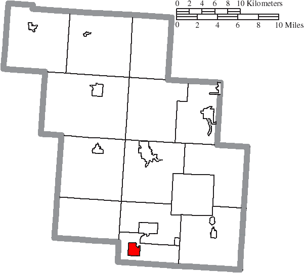 Map of the municipal and township boundaries of Perry County, Ohio, United States, as of the 2000 census, with the location of the village of New Straitsville highlighted. Township borders are shown only in unincorporated areas in order to differentiate incorporated and unincorporated areas more clearly.